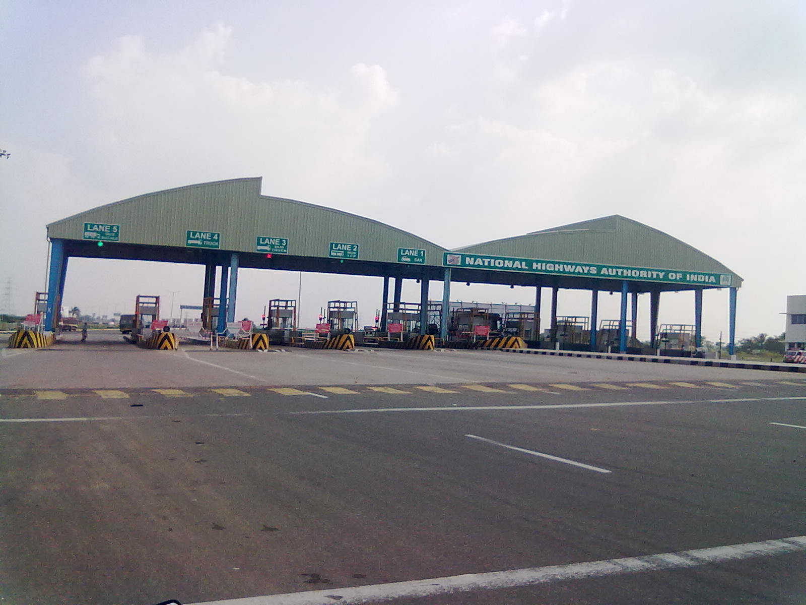 This is NH 67 Toll Gate in Trichy...